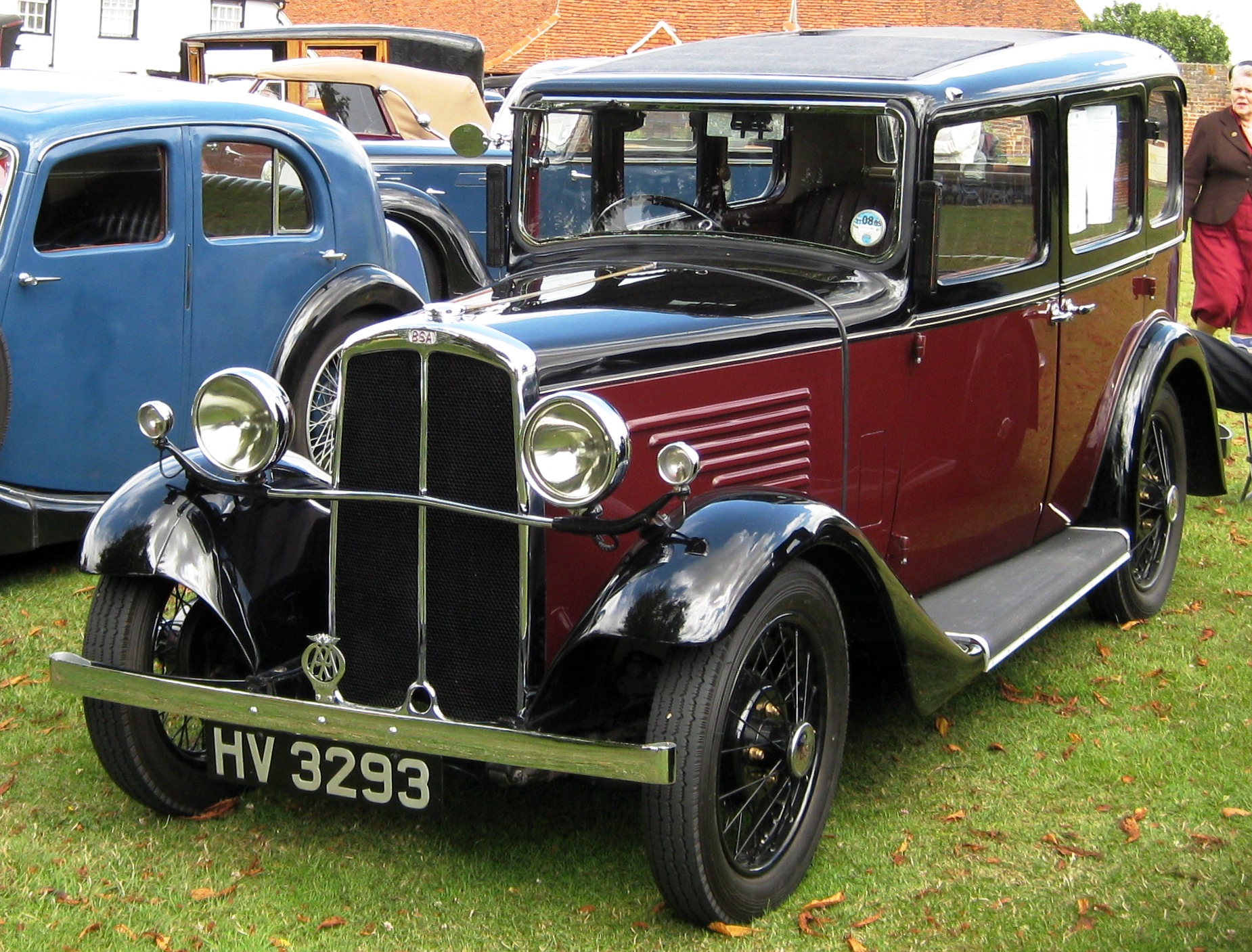 BSA 10 1933 The BSA 10 formed the basis of the Lanchester 10. (Lanchester, by this time, had been acquired by the British Daimler Motor company which in turn was acquired by BSA.) (DVLA) 1185 cc first registered 1 October 1933